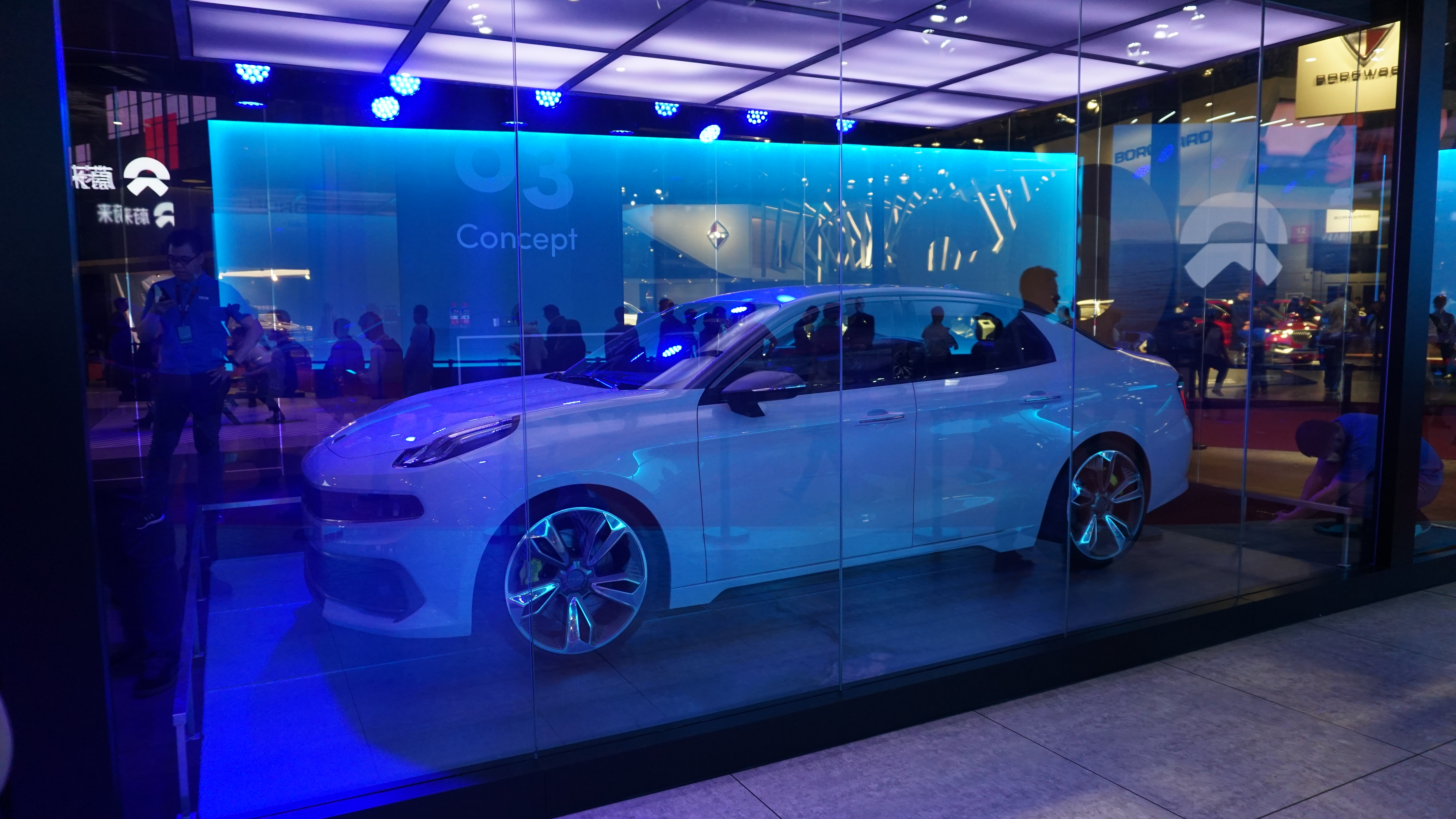 Front view of the Lynk & Co 03 Concept.